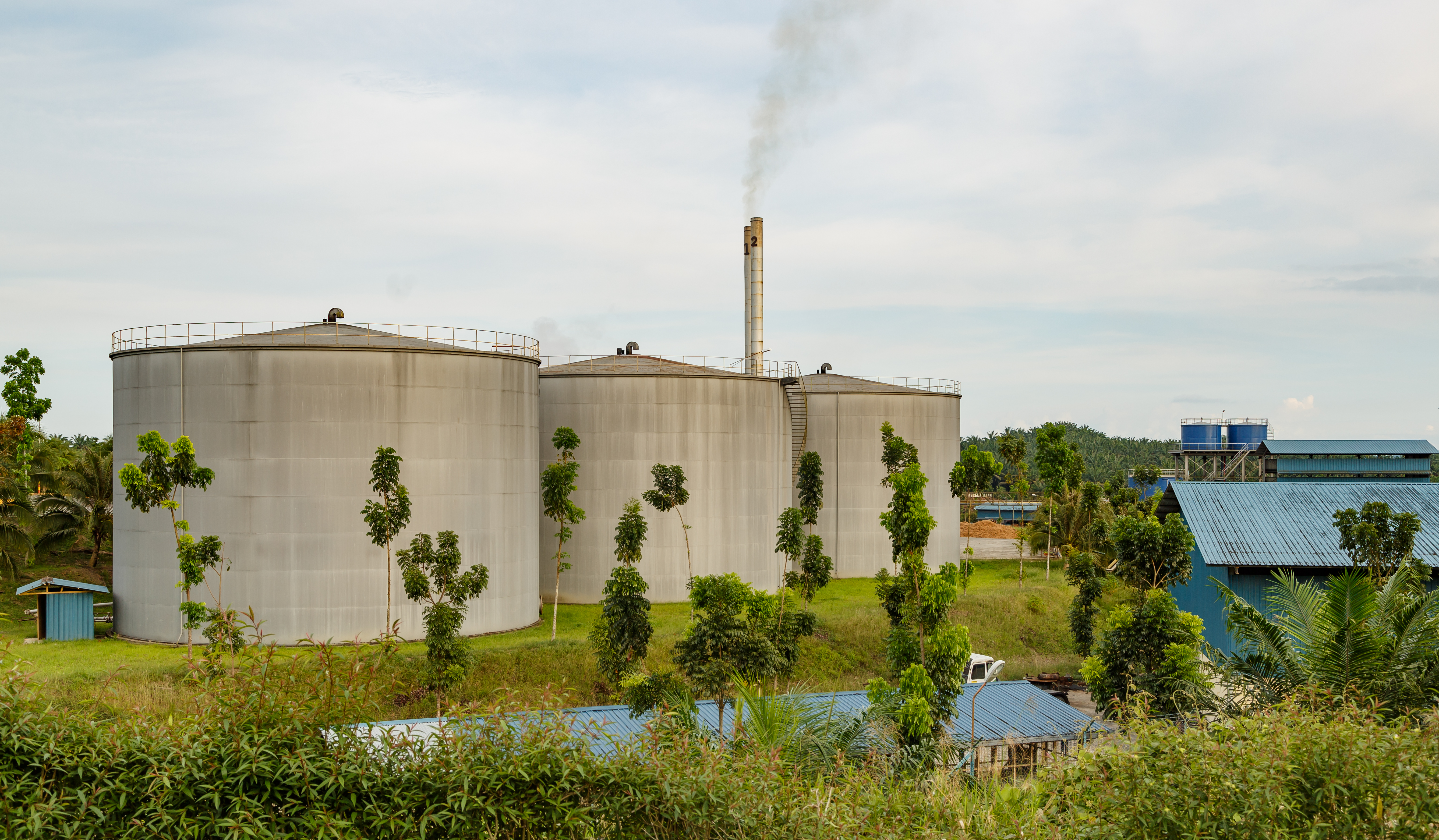 Sungai Segama, Sabah: Storage tanks of Tamaco Oil Mill 2)